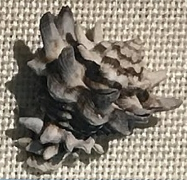 The seashell of Vasum turbinellus (Linnaeus, 1758) in Beijing Museum of Natural History. The shell is collected from the Gulf of Tonkin,by the Natural History Museum of Guangxi.